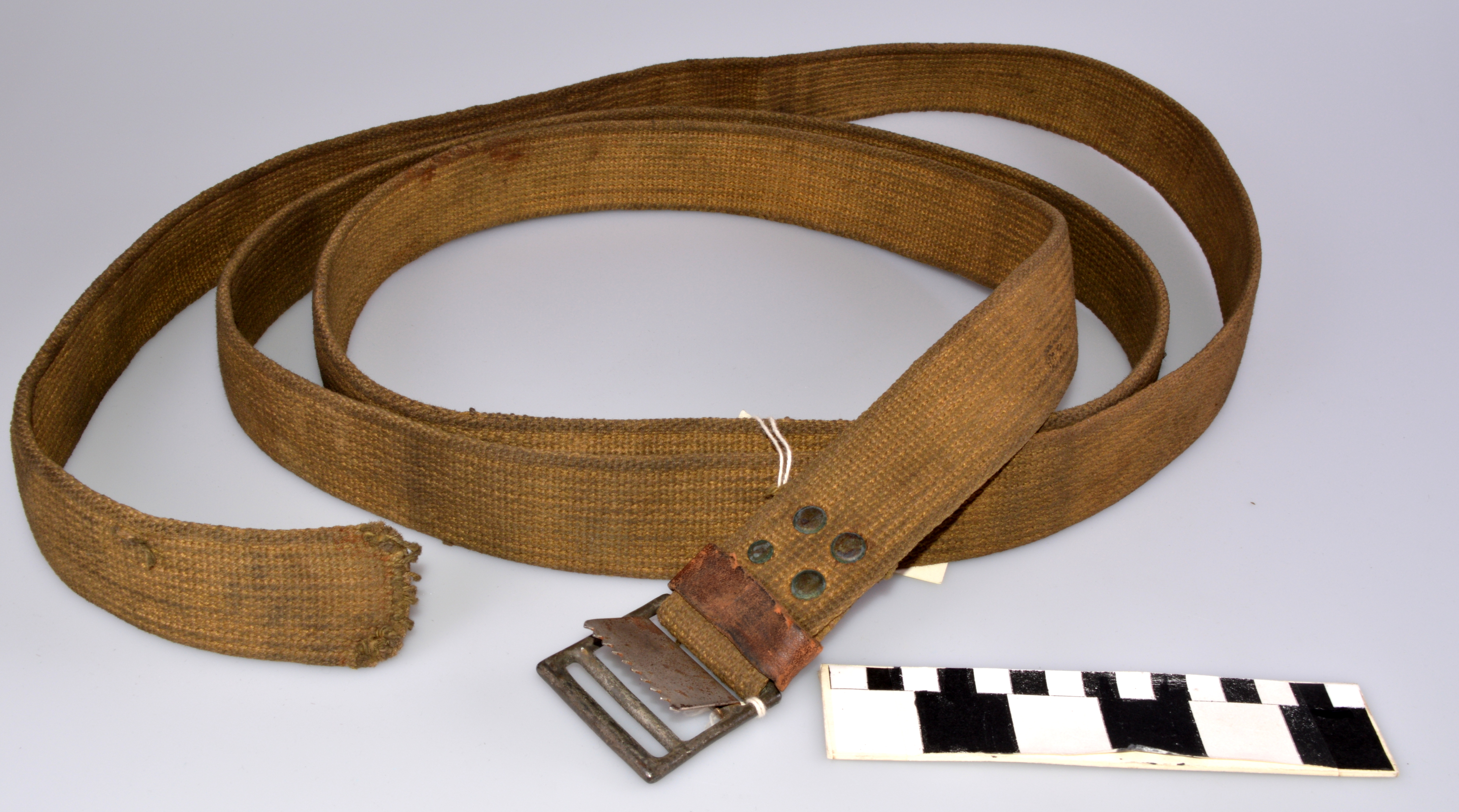 Olive drab cotton webbing strap, used to secure gear or possibly a bed roll. Issued by the US military during World War I. Features a metal tooth buckle and leather keeper.Title: World War I Canvas Webbing Strap